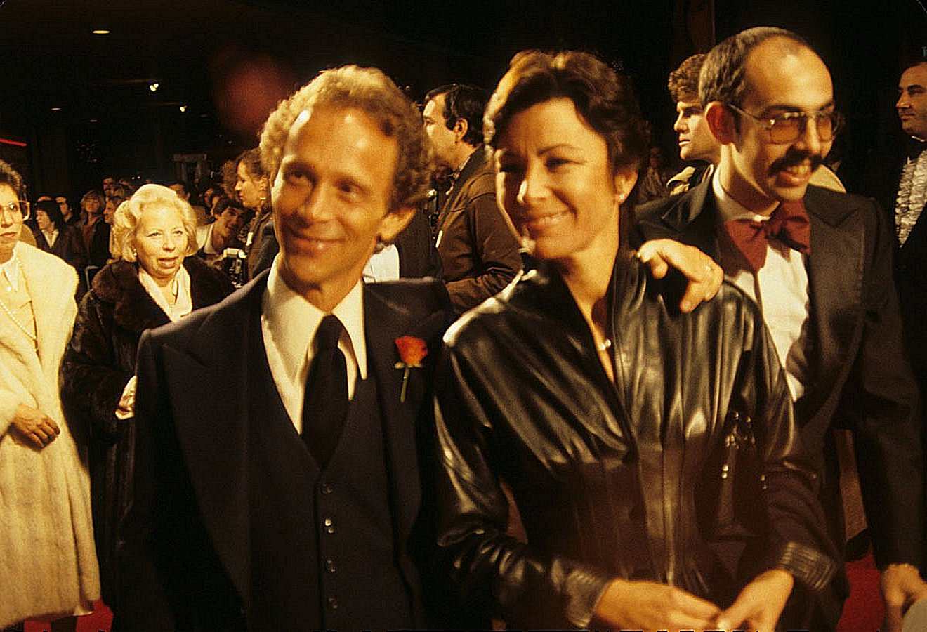 Joel Grey and wife Jo Wilder at the premiere of Bette Midler's movie, THE ROSE, 1979